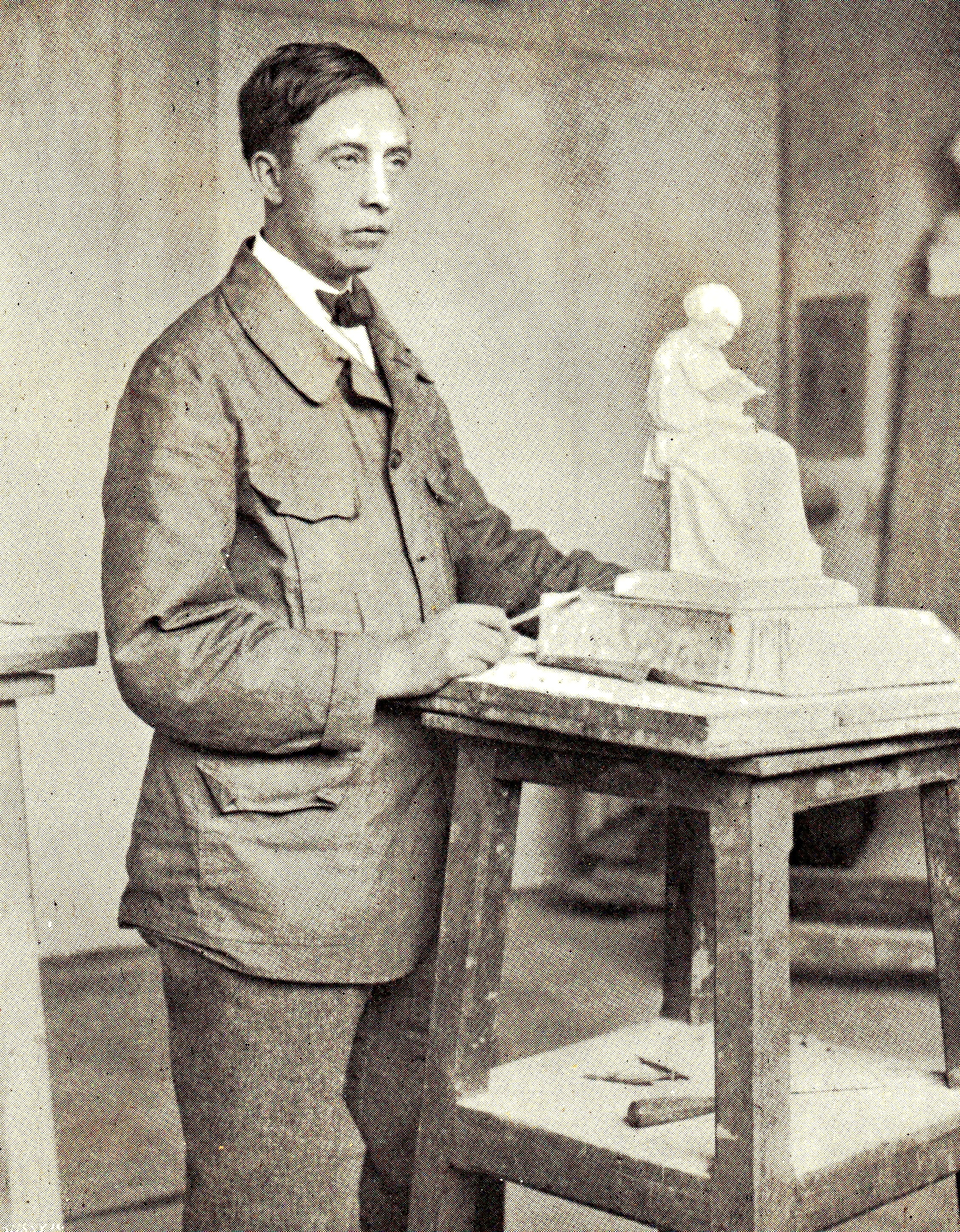 Jan Bronner